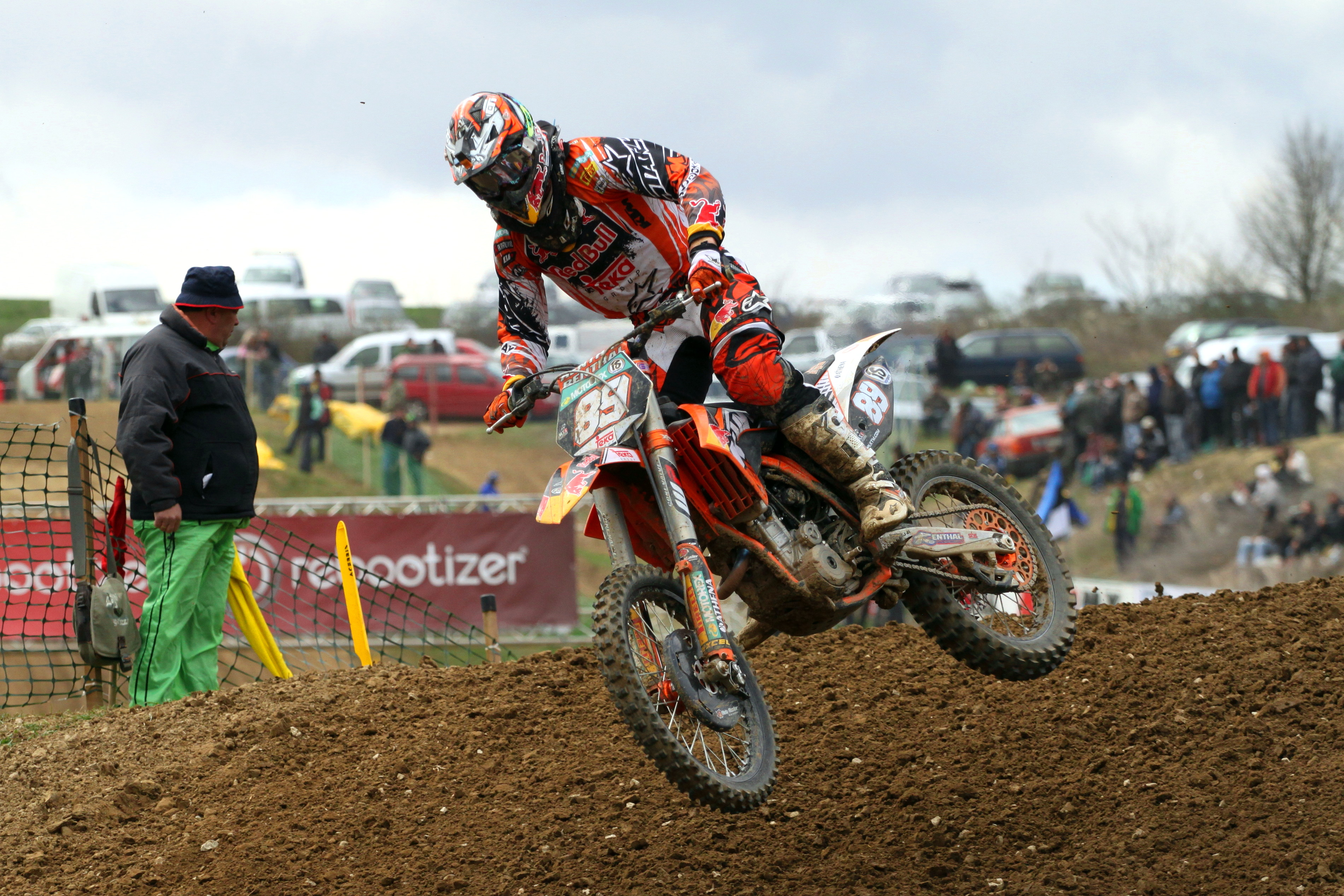 Jeremy van Horebeek - motocross rider from Belgium, GP of Bulgaria 2011